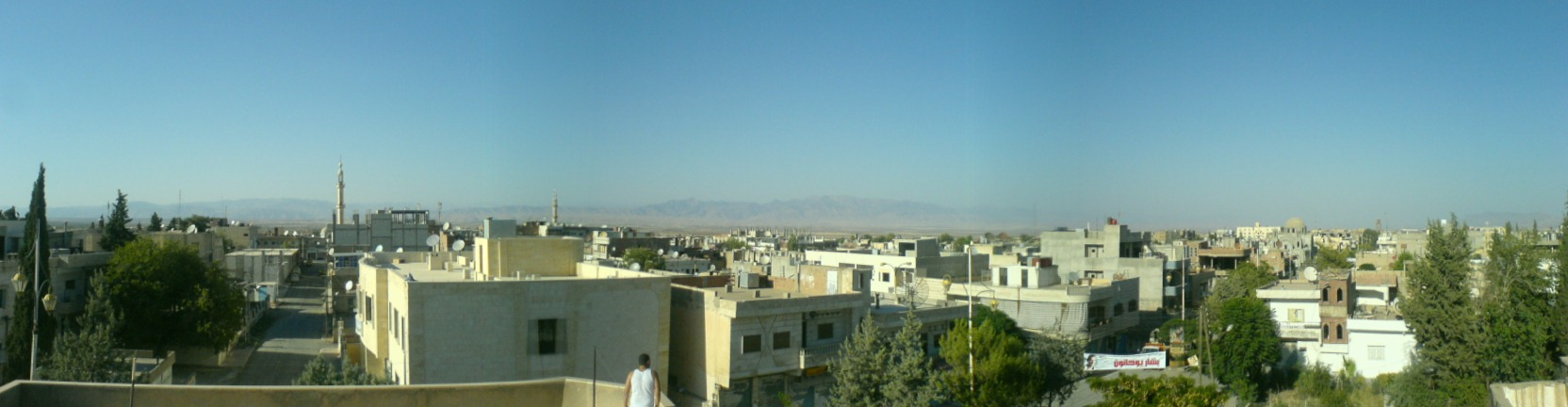 Looking north-east, Al-Malikiyah, capital of the district of the same name in north-east Syria